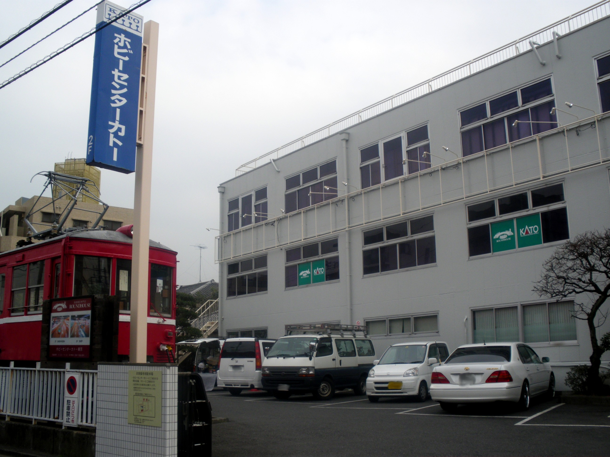 Hobby Center Kato(Nishiochiai,Shinjuku,Tokyo)